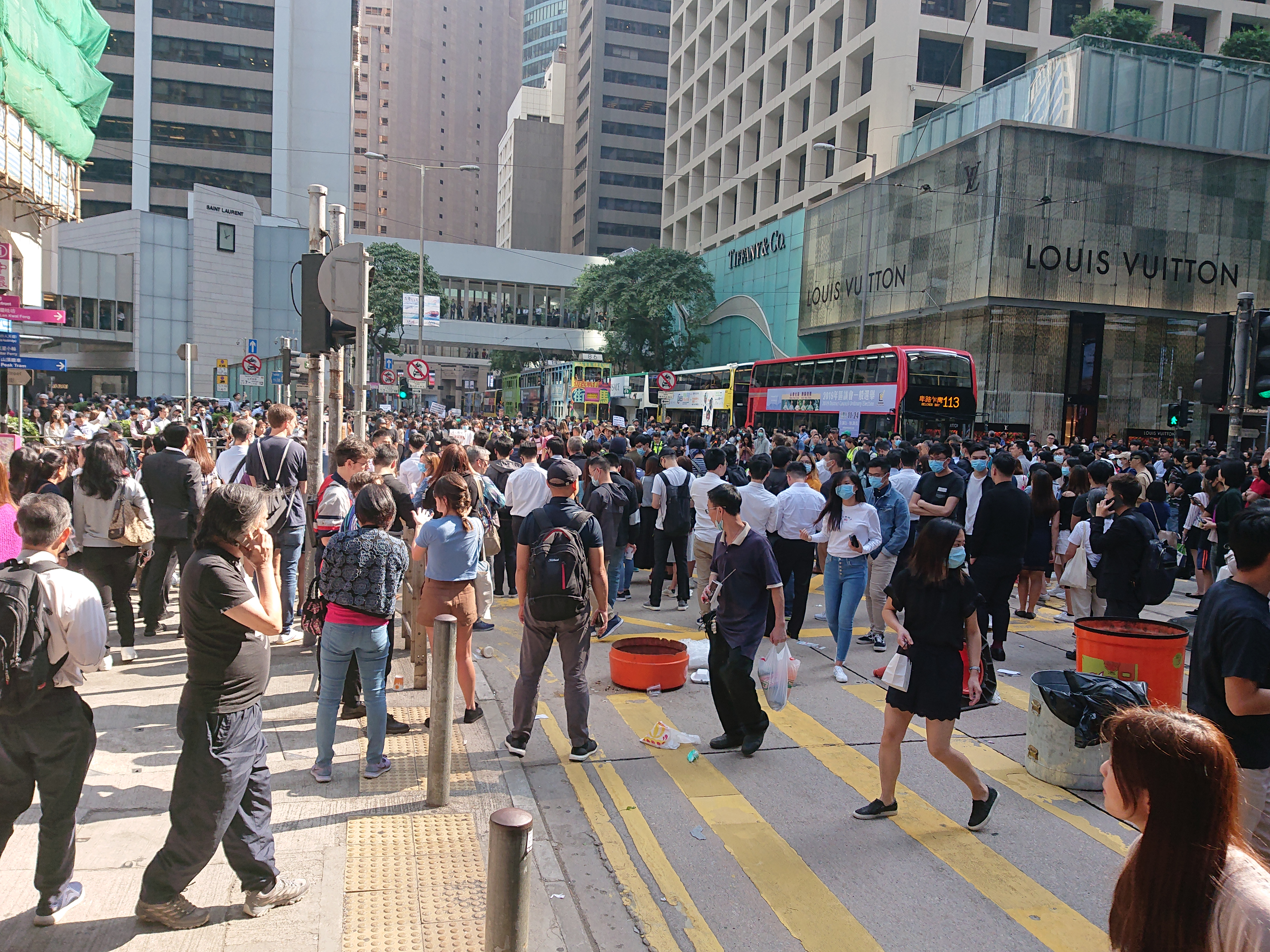 2019-11-08 Central Protest on Des Voeux Road Central near Pedder Street